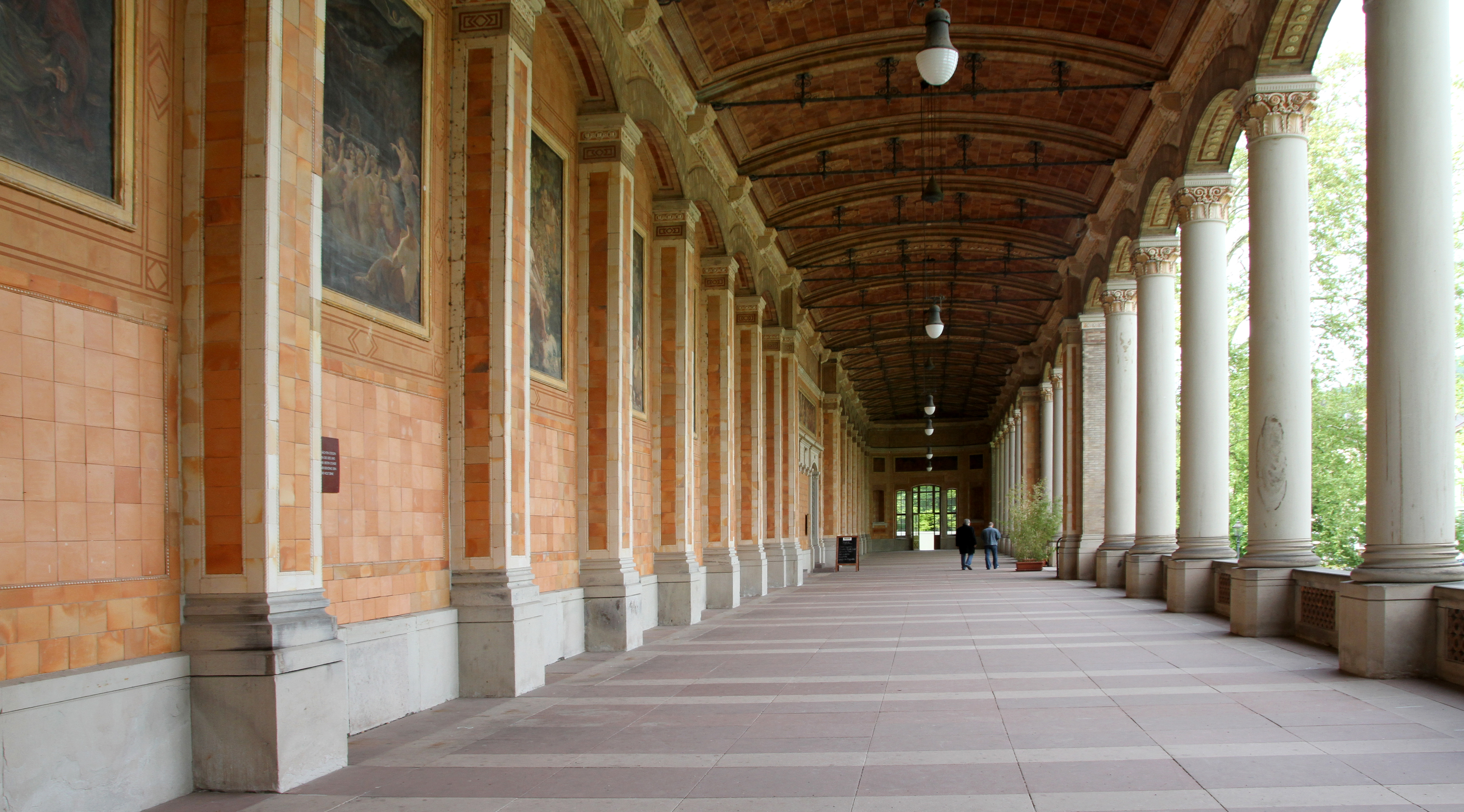 Trinkhalle Baden-Baden, Germany.